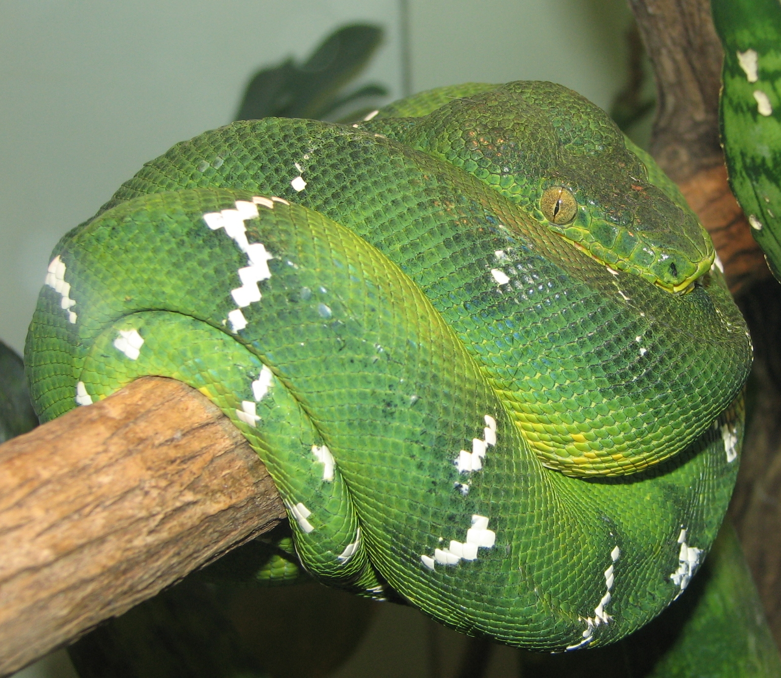 Emerald Tree Boa - Corallus caninus